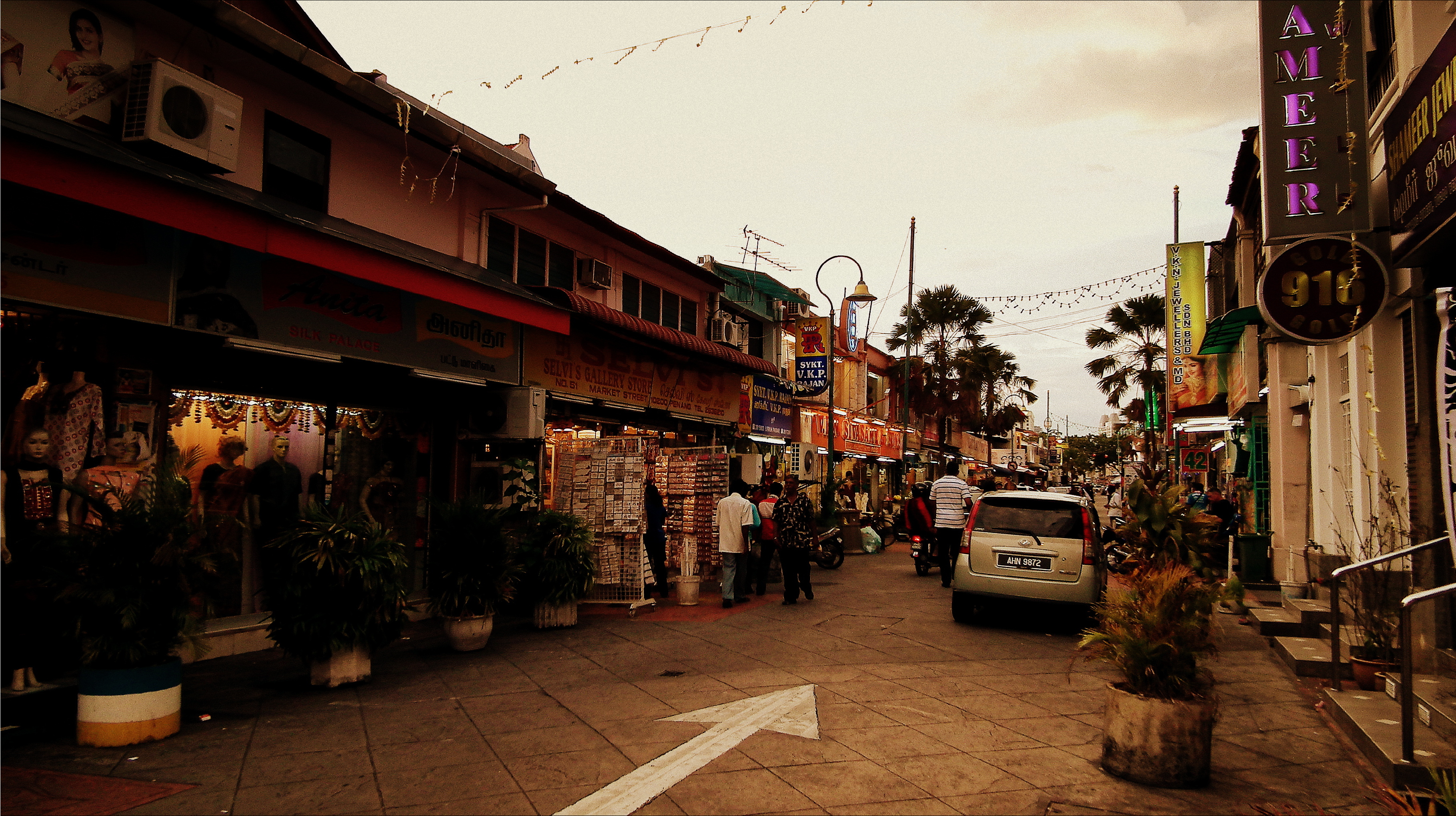 LITTLE INDIA GEORGETOWN PENANG ISLAND MALAYSIA JAN 2012